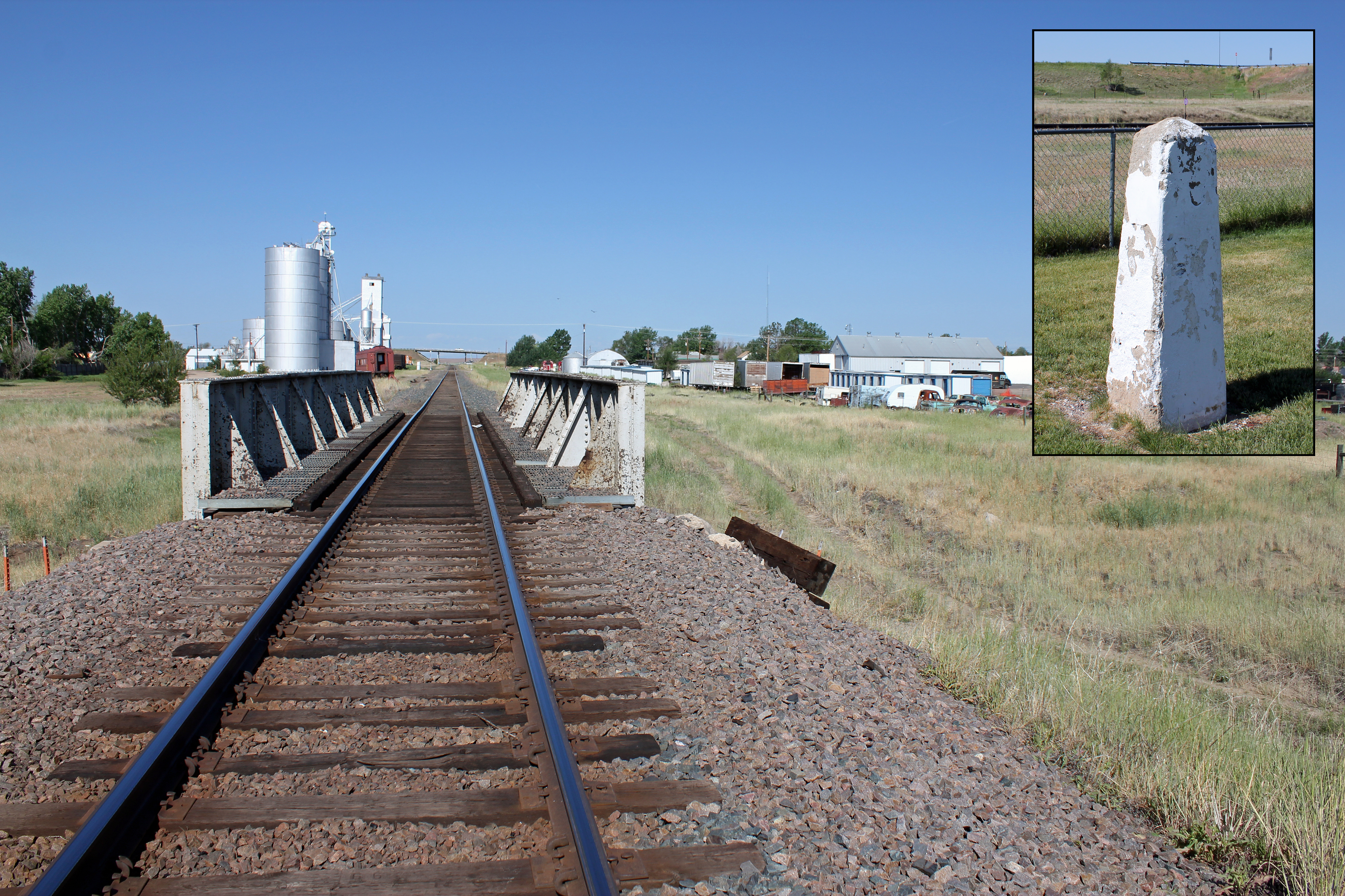 The Comanche Crossing of the Kansas Pacific Railroad in Strasburg, Colorado. "Comanche Crossing" refers to the railroad's crossing of the Comanche Creek, which goes under the railroad bridge in the foreground. This is the site where the last spike was driven into the first continuous continental railroad on August 15, 1870. The exact spot is not marked. The inset shows a small monument that marks the event. Located in Strasburg's Lyons Park, the marker is on the right side of the railroad tracks near the viaduct in the distance.